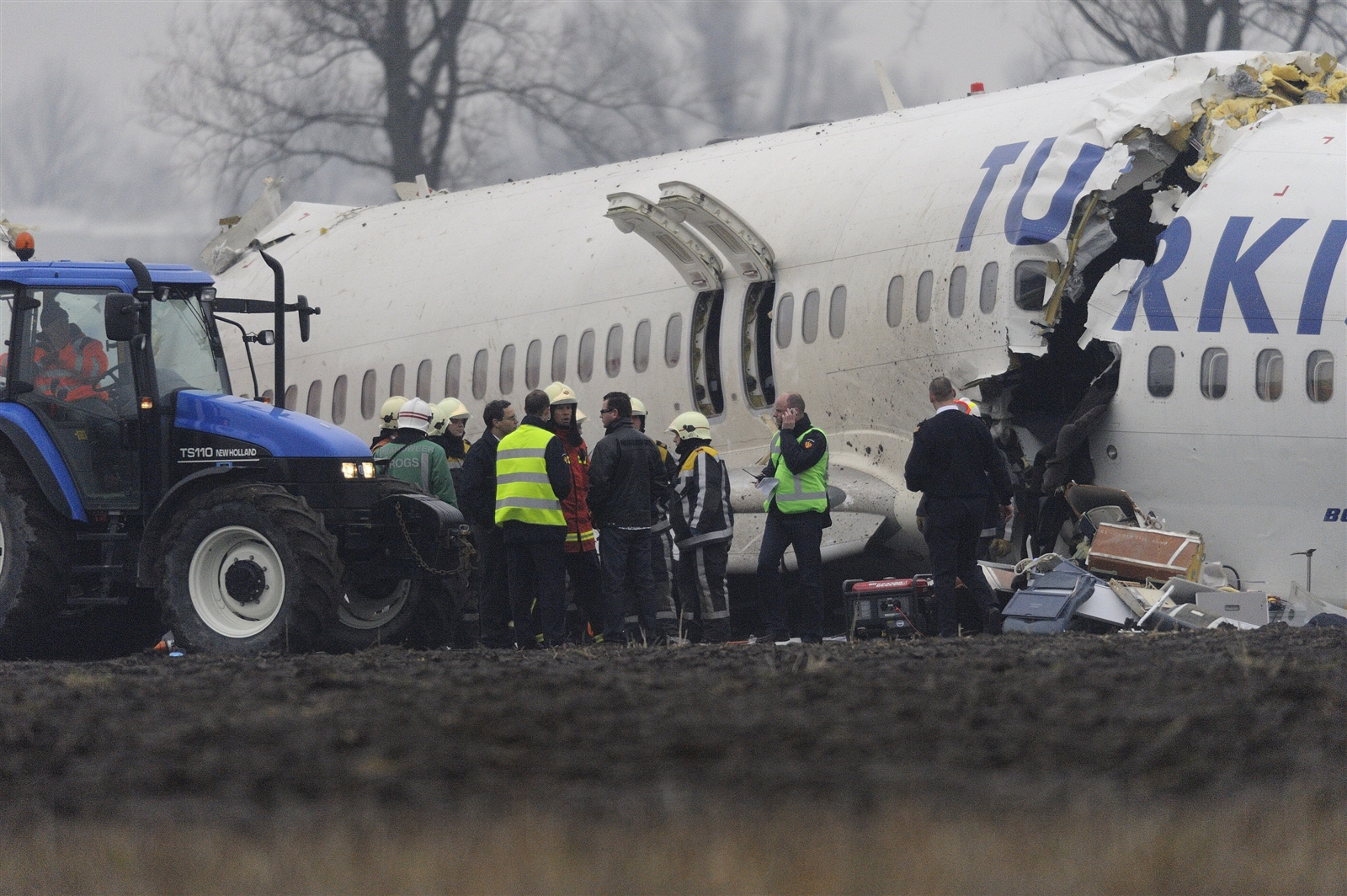 Crash site of Turkish Airlines Flight 1951, Boeing 737-8F2 (TC-JGE, "Tekirdağ"), at Schiphol Airport, near Amsterdam, The Netherlands. 25 February 2009; Copyright Fred Vloo / RNW